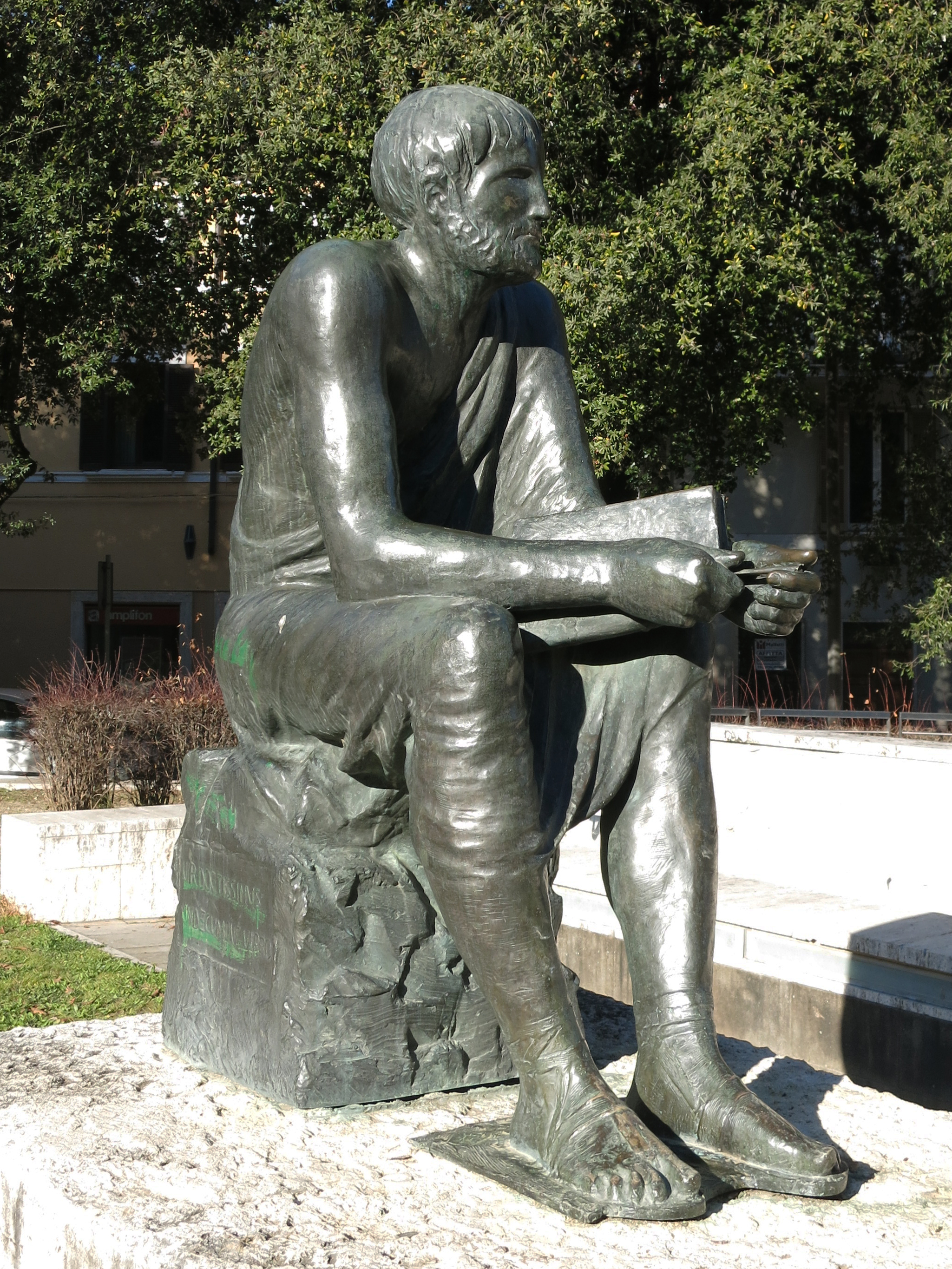 Statue of ancient Roman scholar Marcus Terentius Varro in his birthplace, Rieti (Lazio, Italy)